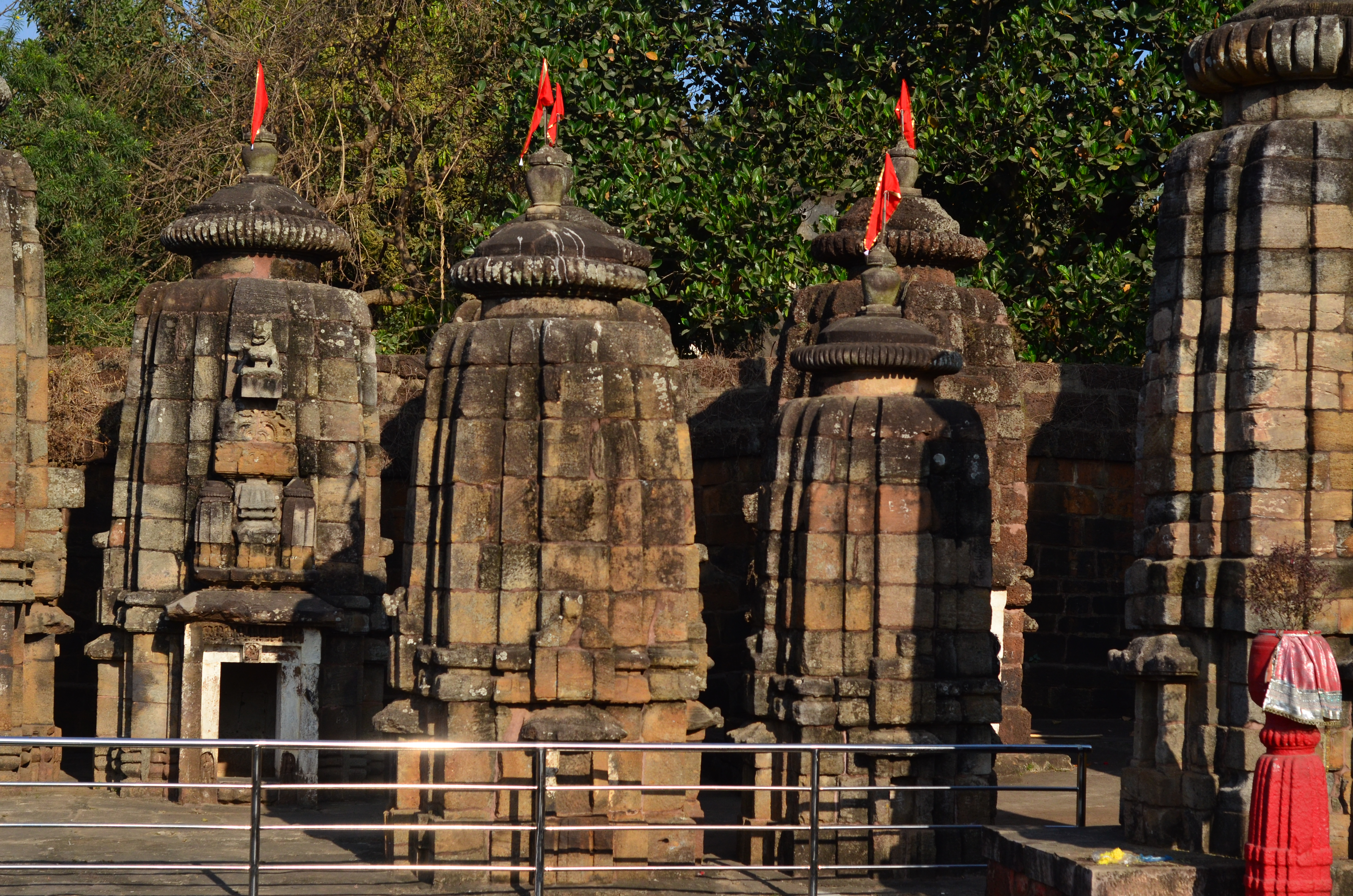 A complex containing eight 10th-century temples in Bhubaneswar, Odisha.